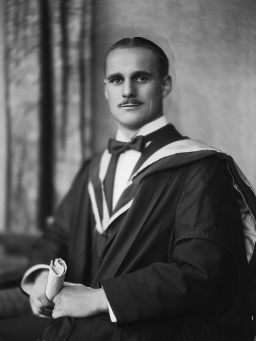 William Ball Sutch (27 June 1907 – 28 September 1975) was a New Zealand economist, historian, writer, public servant, and public intellectual. In 1974, he was charged with trying to pass New Zealand Government information to the Soviet Union, of which he was acquitted.